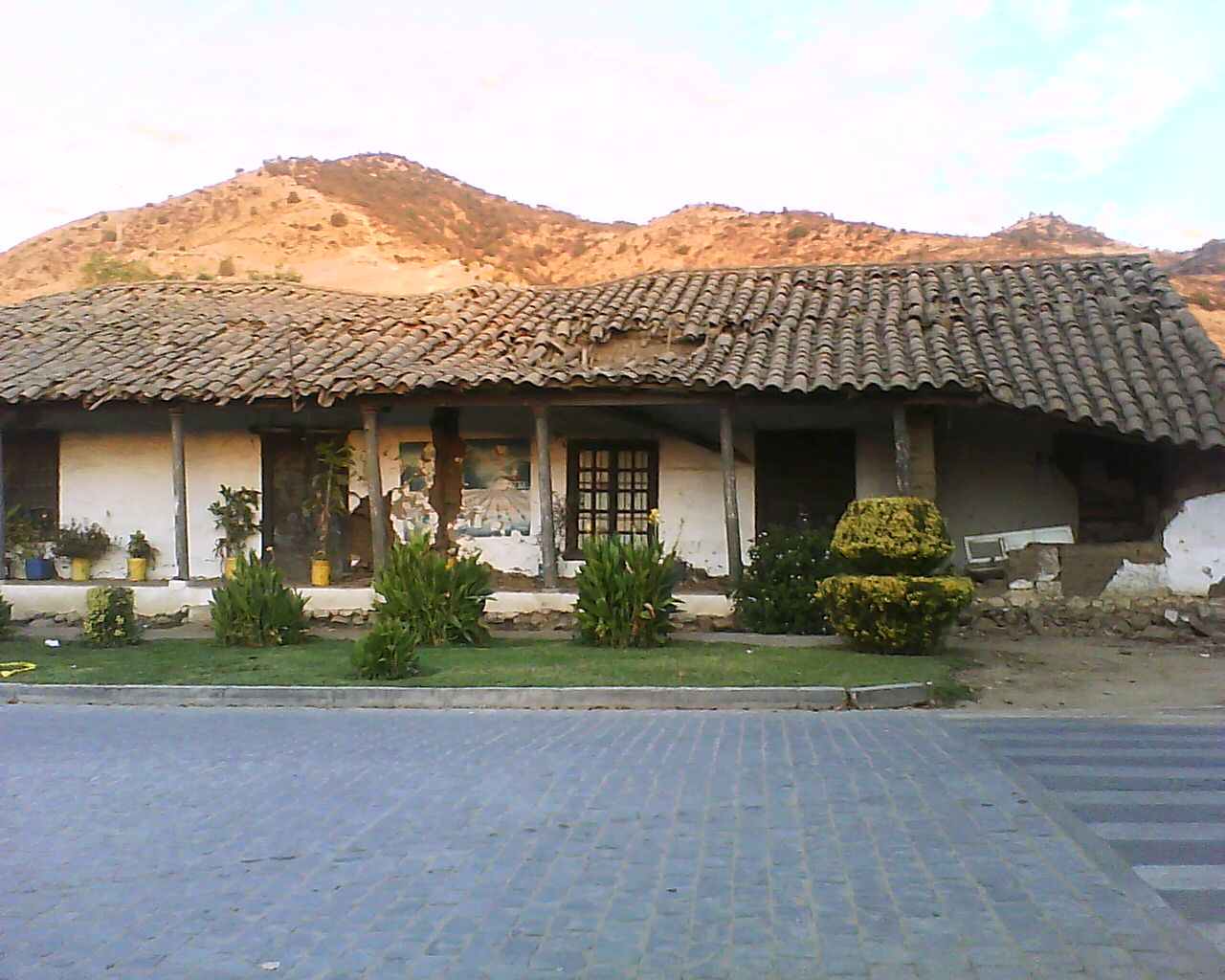 A house in Lolo after the earthquakes.